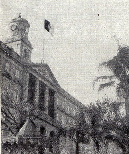 the royal flag being hoisted in Porto